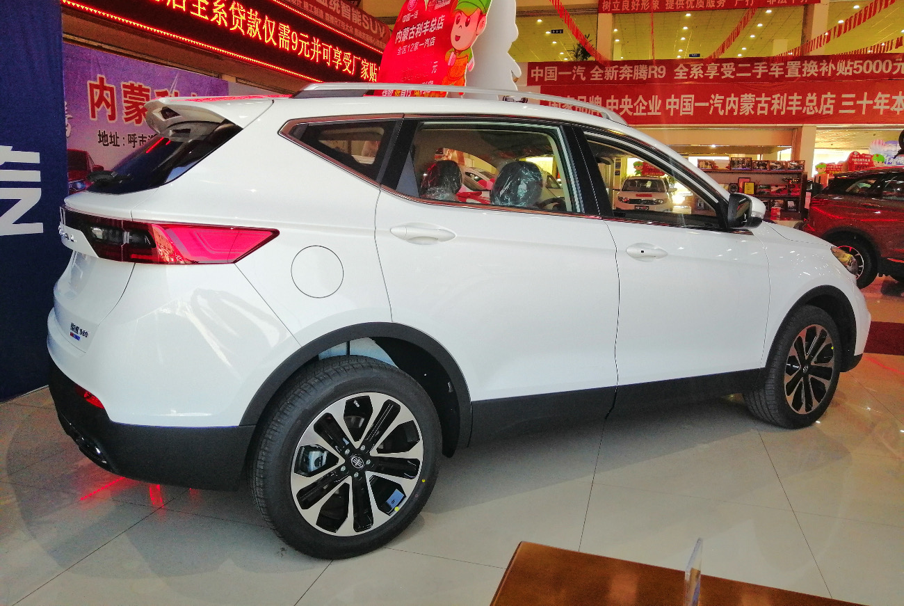 FAW Jumpal D80 photographed in Hohhot, Inner Mongolia autonomous region, China.